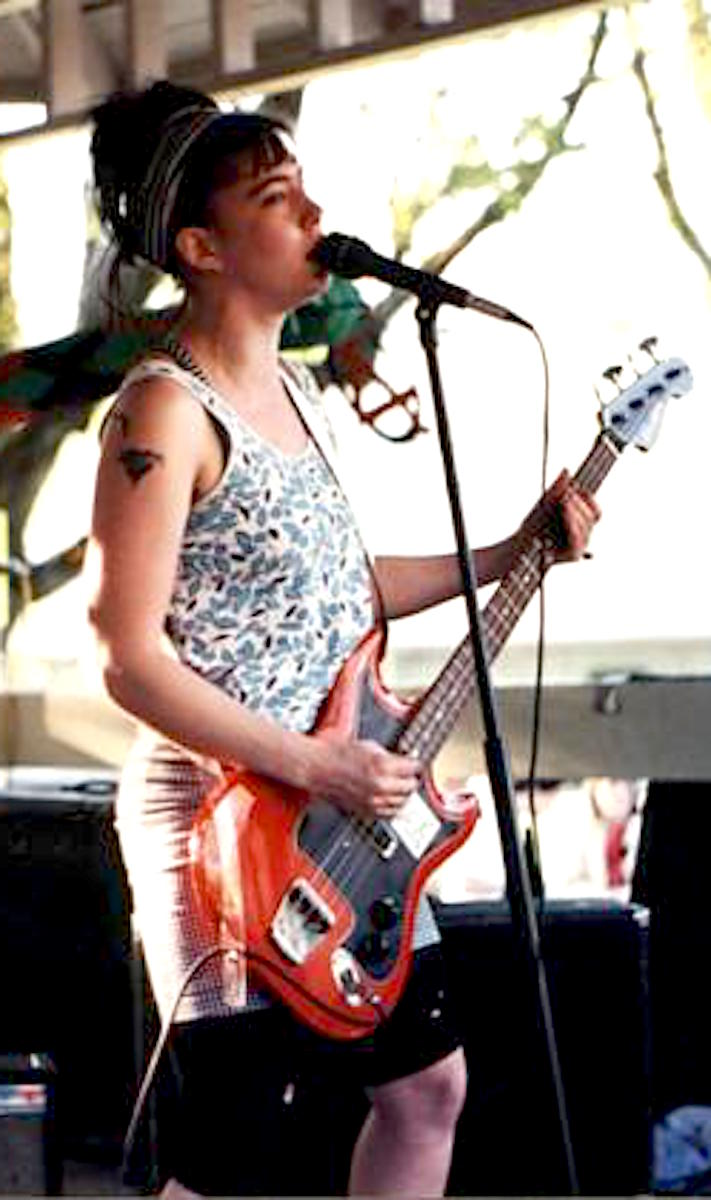 Kathleen Hanna live in Bikini Kill in 1991 Hagström I B (1963-1973)[1] References ↑ Hagstrom "Numbers" - 1963 -1973. Hagstrom vintage electric bass history : time and product line 1961 - 1981, HagstromVintageGuitars.se. "• Hagstrom I B, 1963-1973. [image1, image5] / • Hagstrom II B, 1963-1970. [image2, image3] / • Hagstrom 8-string, 1967-1969. [image4] / • Futurama - export to GBR. 1962-1965. ..."